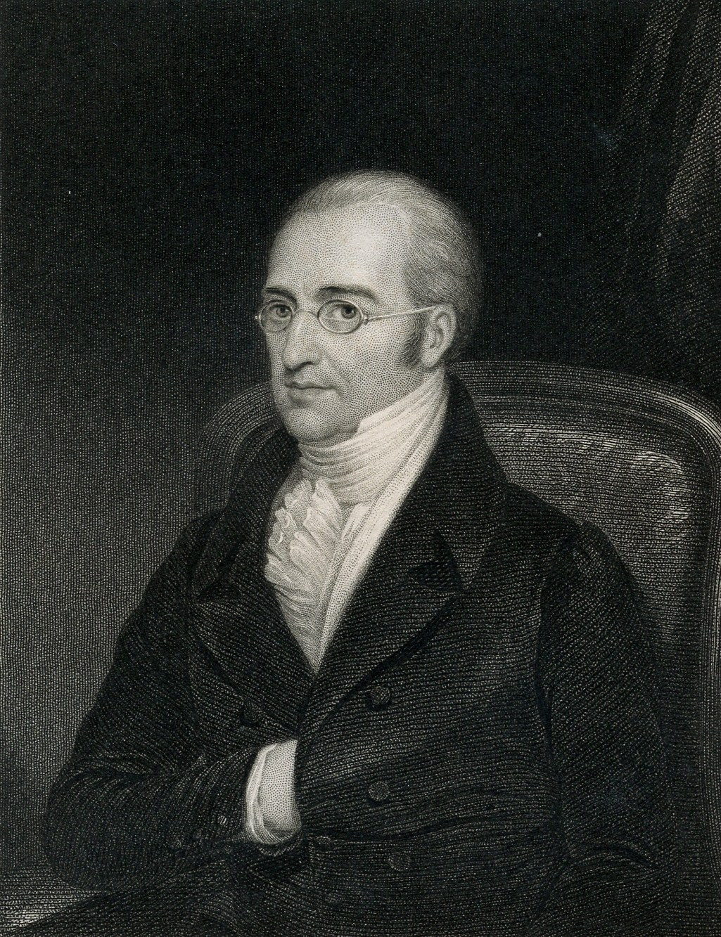 Portrait of John Cooke (1756–1838), English physician.